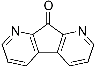 chemical structure of 1,8-Diazafluoren-9-one